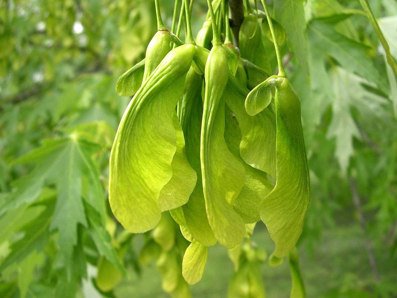 Silver Maple Acer saccharinum samaras in Churchill Woods Forest Preserve, Glen Ellyn, Illinois, USA.